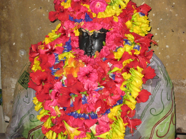 Idol of Durga,the Goddess, in the village temple.